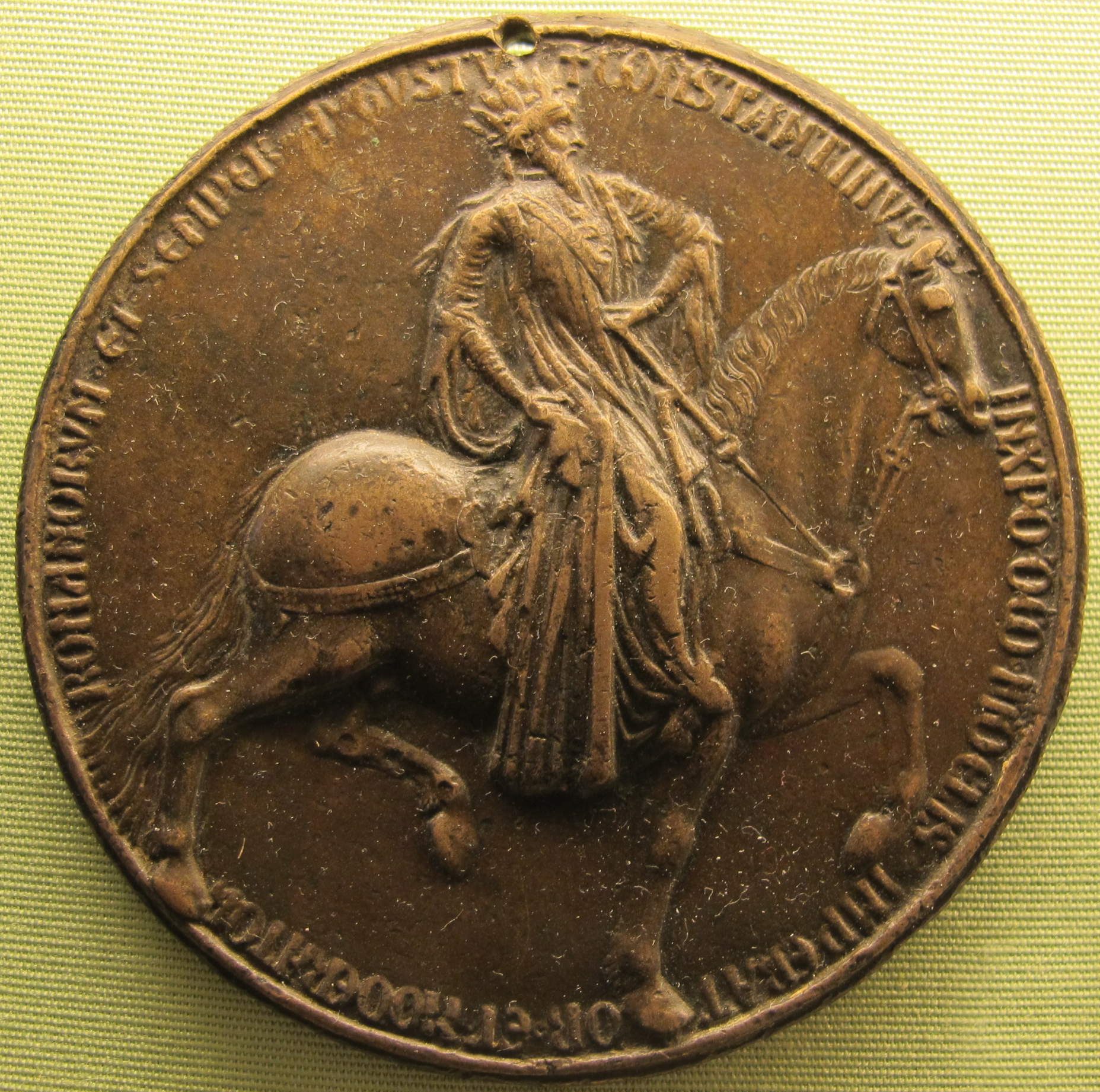 Medal of Constantine the Great (c.272 - 337)